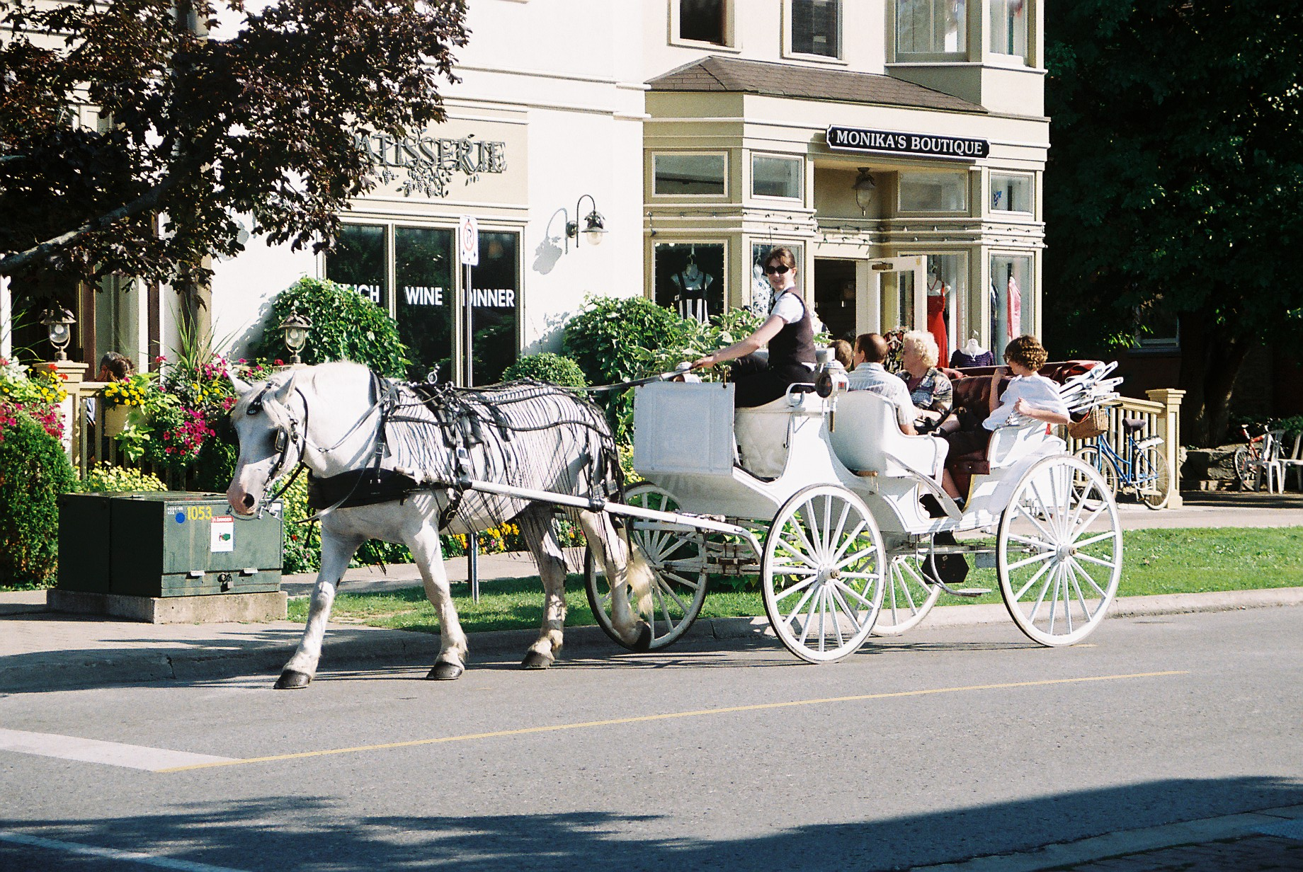 Niagara on the Lake, Ontario Canada